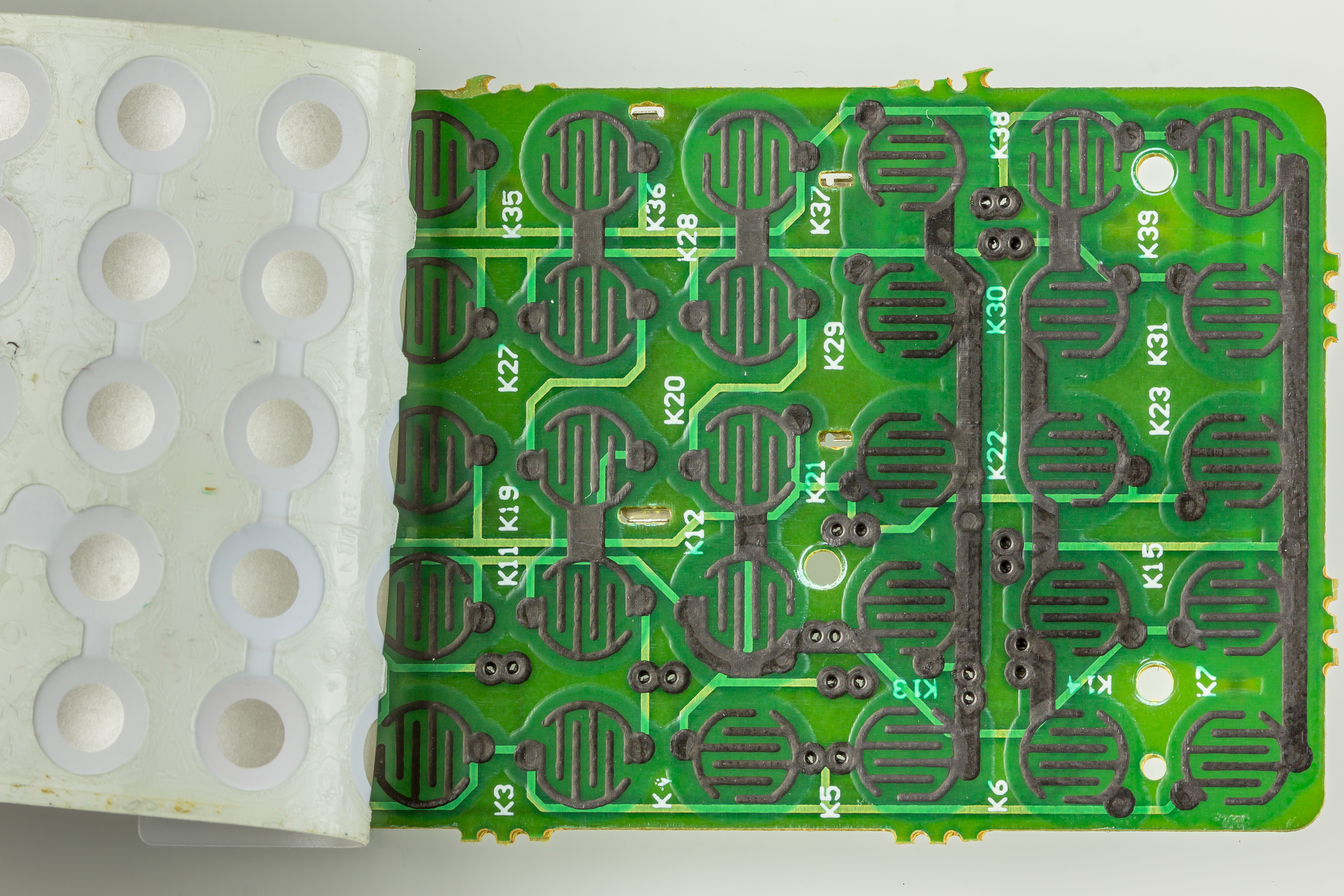 Remote Control DSR-0112 - PCB keyboard side